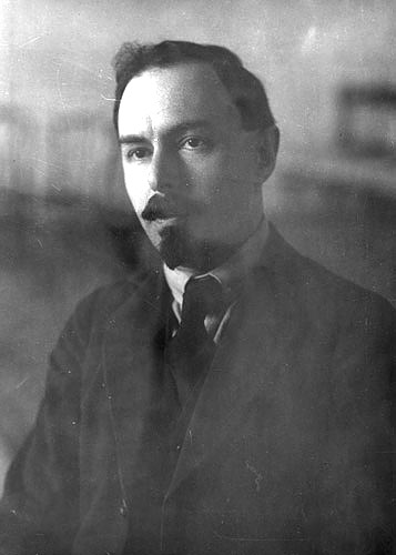 Grygory Sokolnikov (1888-1939) old bolshevik and soviet politician and economist